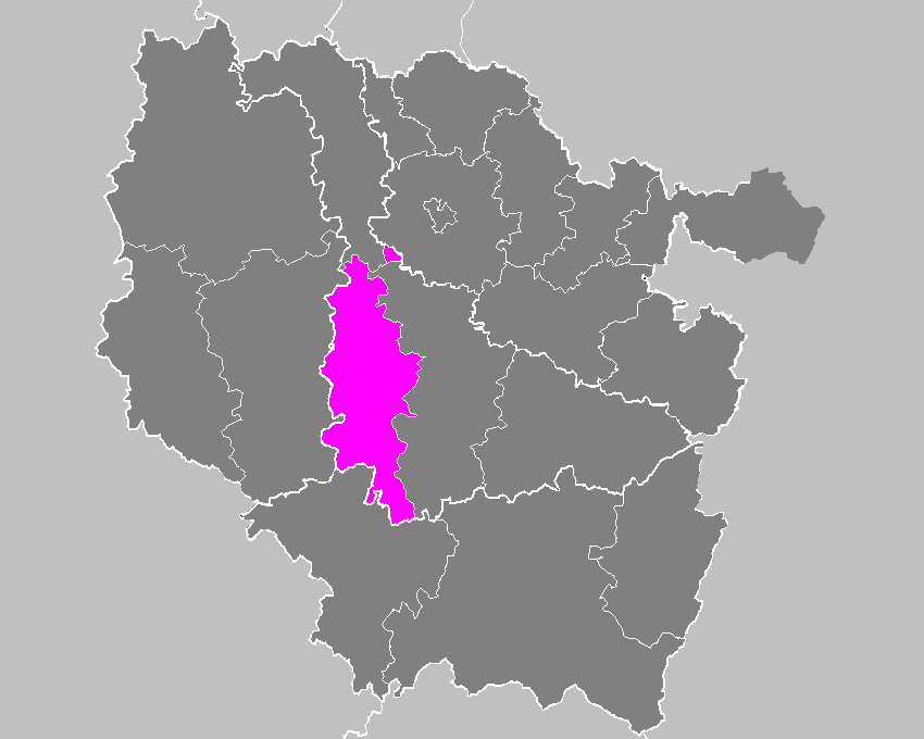 Maps of arrondissements and cantons of France: Arrondissement de Toul.PNG